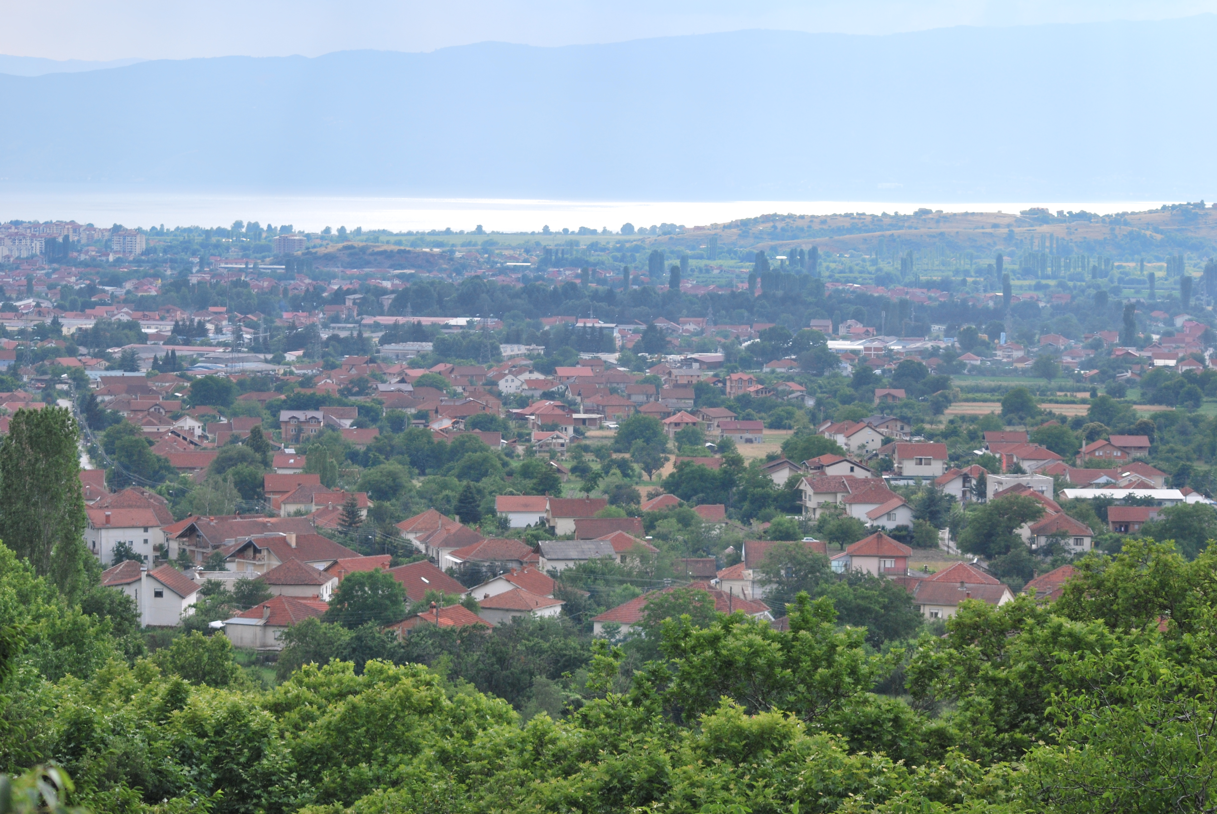 Velgošti, Macedonia